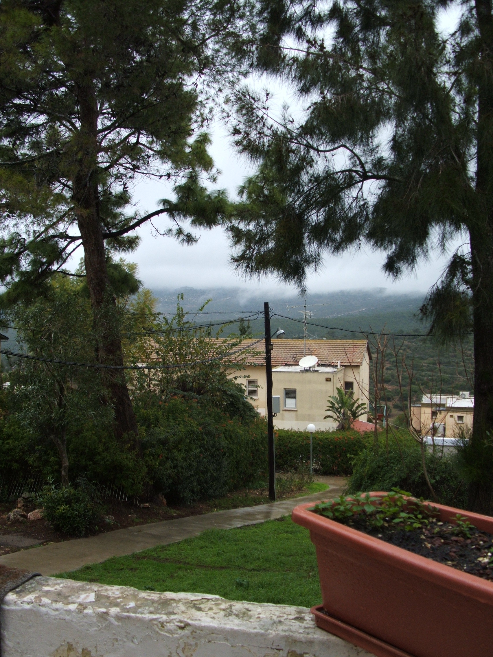 kibotz bet oren